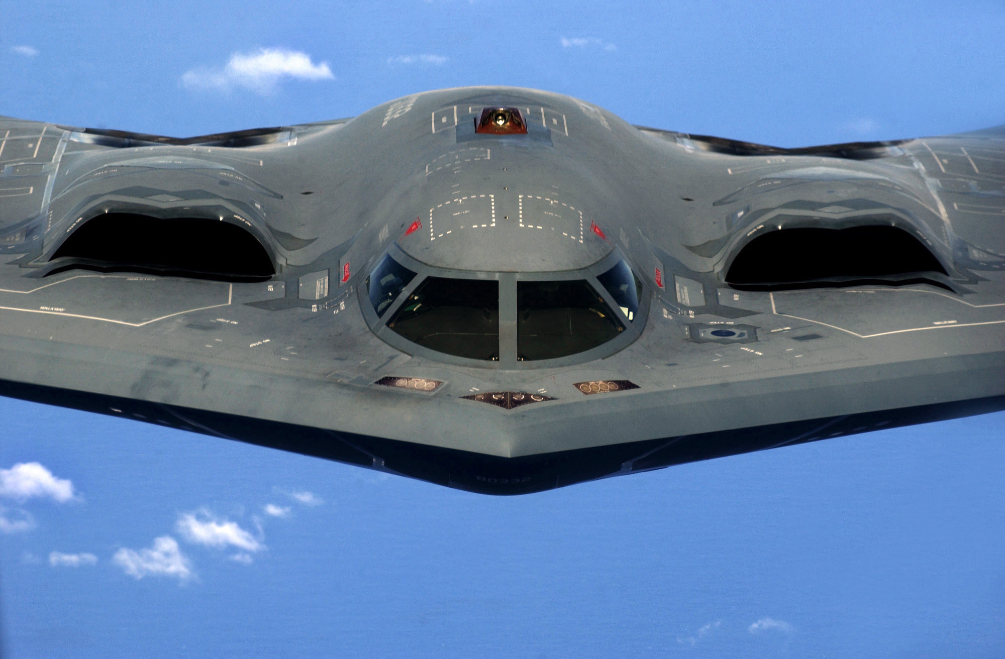 A U.S. Air Force B-2 Spirit "Stealth" bomber, 393rd Expeditionary Bomb Squadron, 509th Bomb Wing, Whiteman Air Force Base, Mo., flies over the Pacific Ocean after a recent aerial refueling mission, May 2, 2005. The Bombers are deployed to Andersen Air Force Base, Guam, as part of a rotation that has provided the U.S. Pacific Command a continuous bomber presence in the Asian Pacific region since February 2004, enhancing regional security and the U.S. commitment to the Western Pacific. (U.S. Air Force photo by Tech Sgt. Cecilio Ricardo)